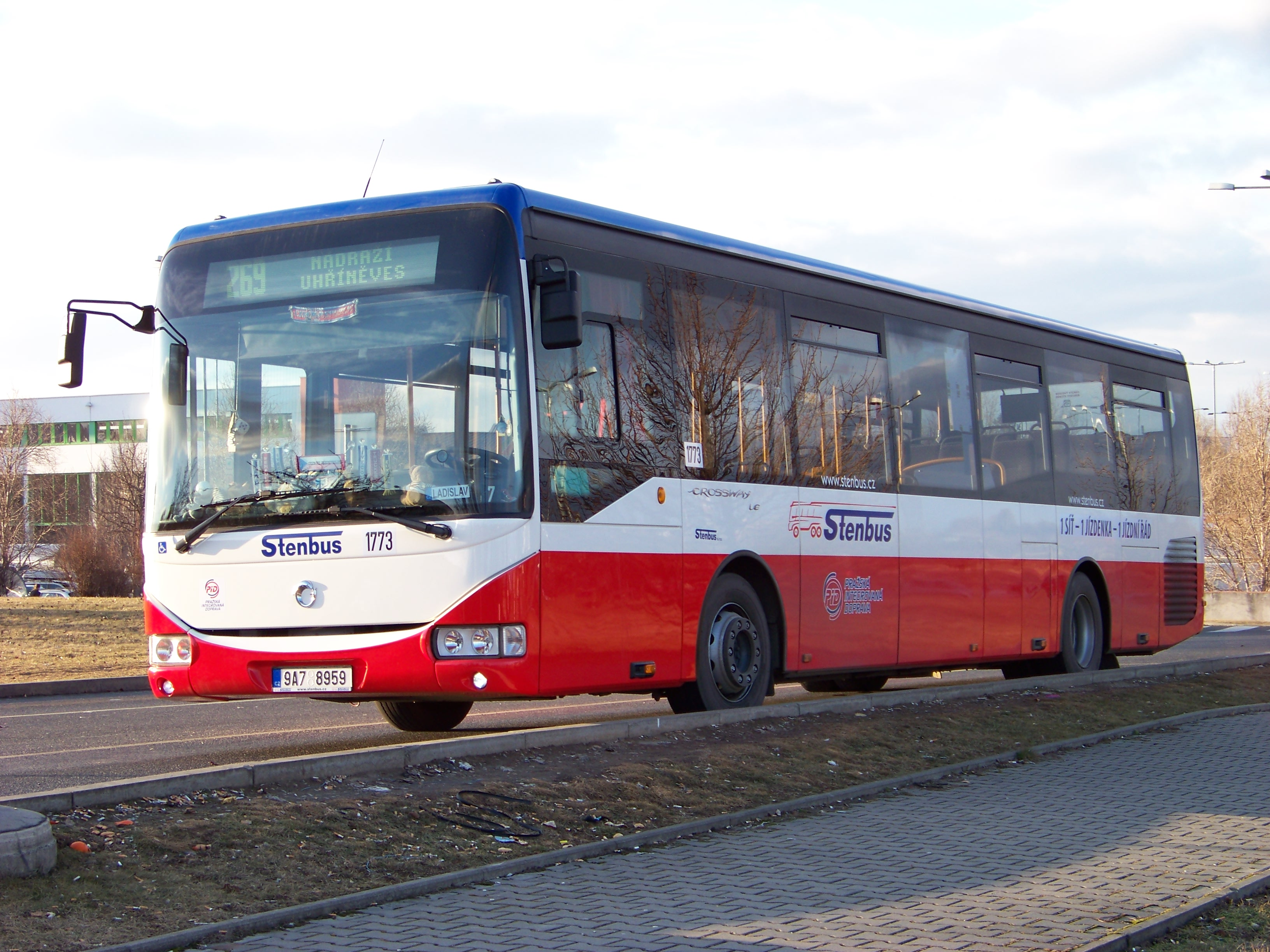 Prague-Čakovice, the Czech Republic. A bus at the Globus hypermarket.